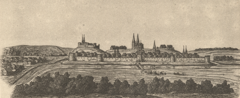 Tartu in 1553